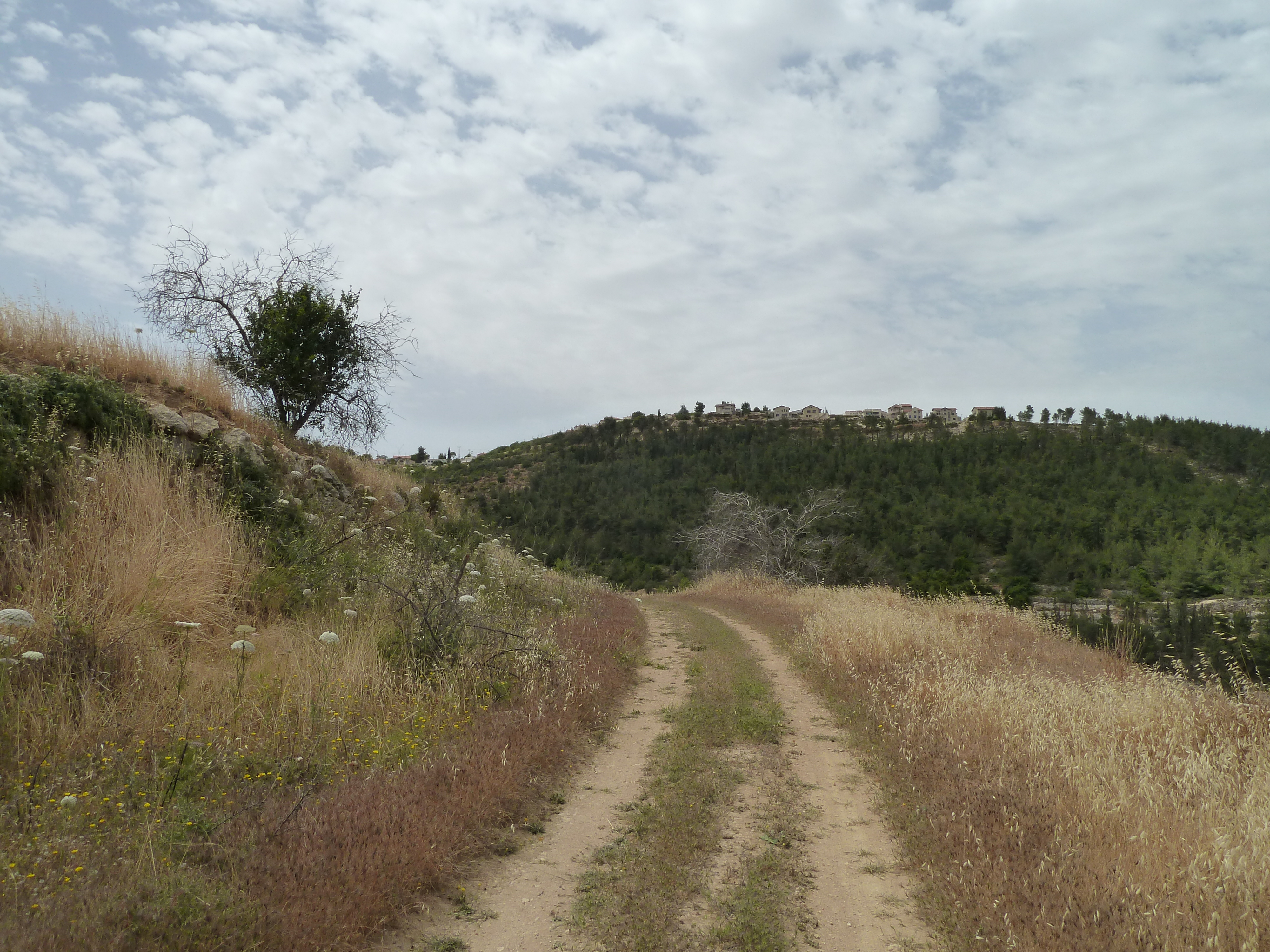 Hadassah Trail. Ein Kerem,, Jerusalem, Israel